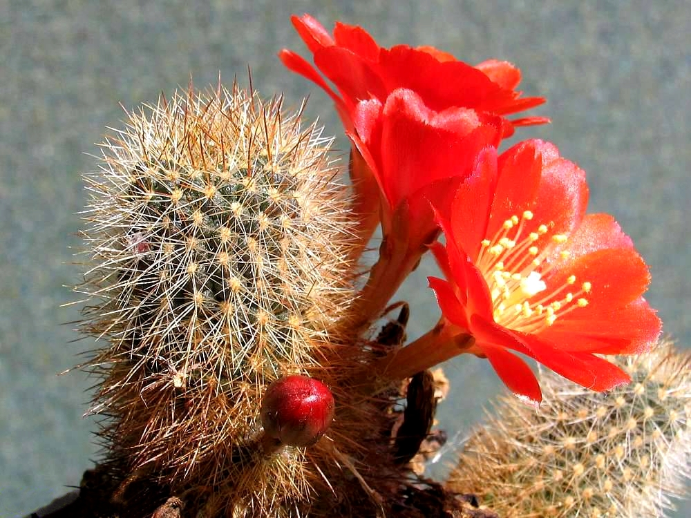 Rebutia kupperiana Boed. var kupperiana - cultivated plant from own collection.